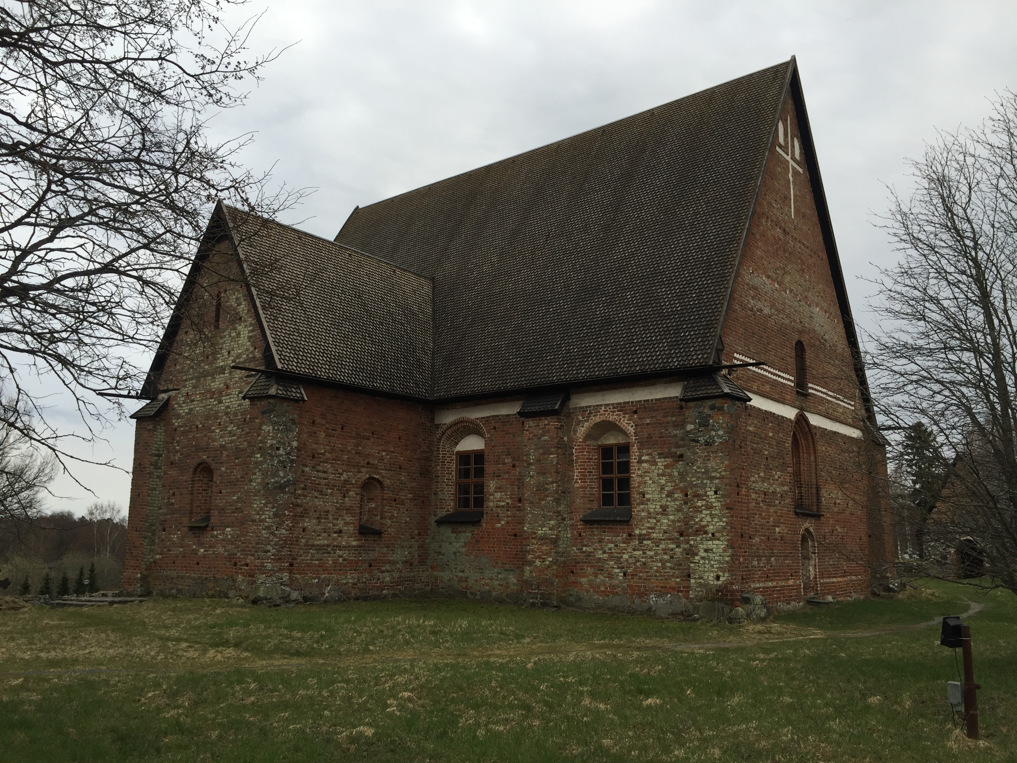 Hattula Church exterior